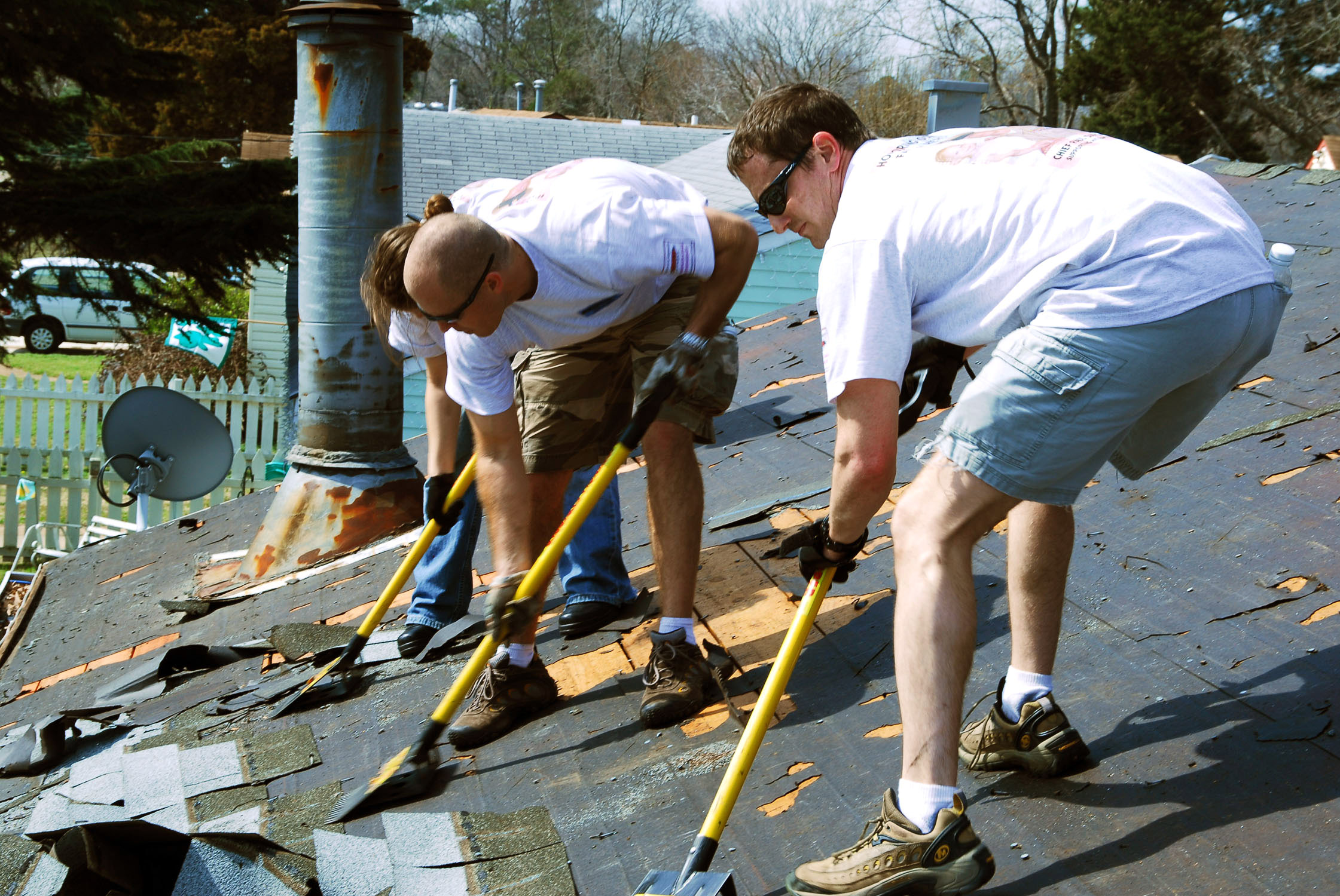 070323-N-4238B-253 NORFOLK, Va. (March 23, 2007) - From right to left, Lt. Tim Ferracci, Chief Explosive Ordnance Disposal Jeff Reinhofer, and Constructionman Apprentice Nicole Ramnes, assigned to Explosive Ordnance Disposal Unit (EODU) 2, remove shingles from the roof of the home of Chief Explosive Ordnance Disposal Paul Darga’s widow. More than 100 volunteers helped complete work Darga intended to do on the house before being killed in Iraq while responding to an improvised explosive devise (IED) attack in the Anbar Province. U.S. Navy photo by Mass Communication Specialist Seaman Kelly E. Barnes (RELEASED)